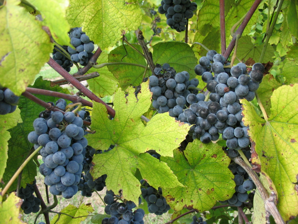 Norton grapes from the Vitis aestivalis family growing in Missouri.